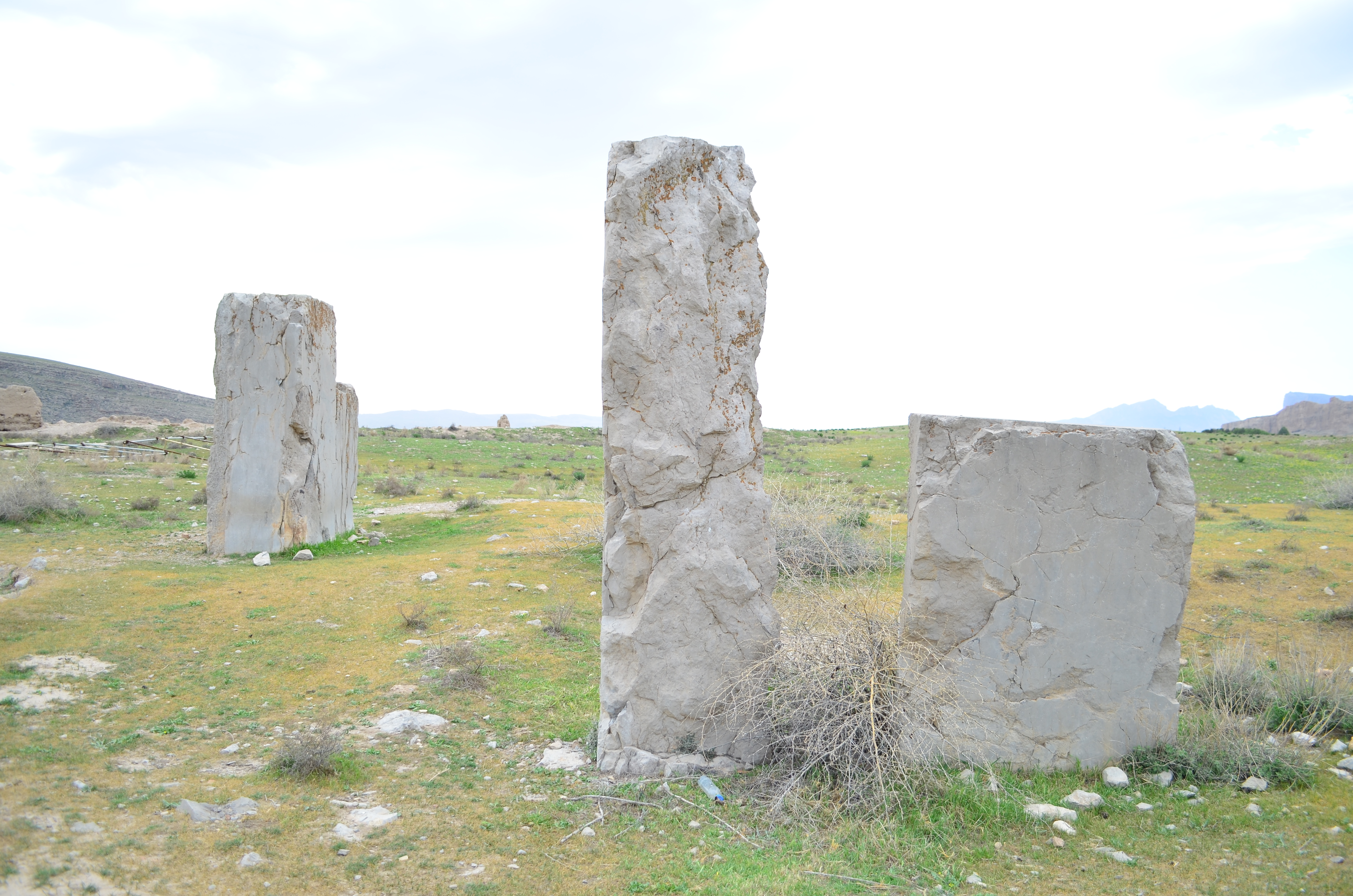 Estakhr